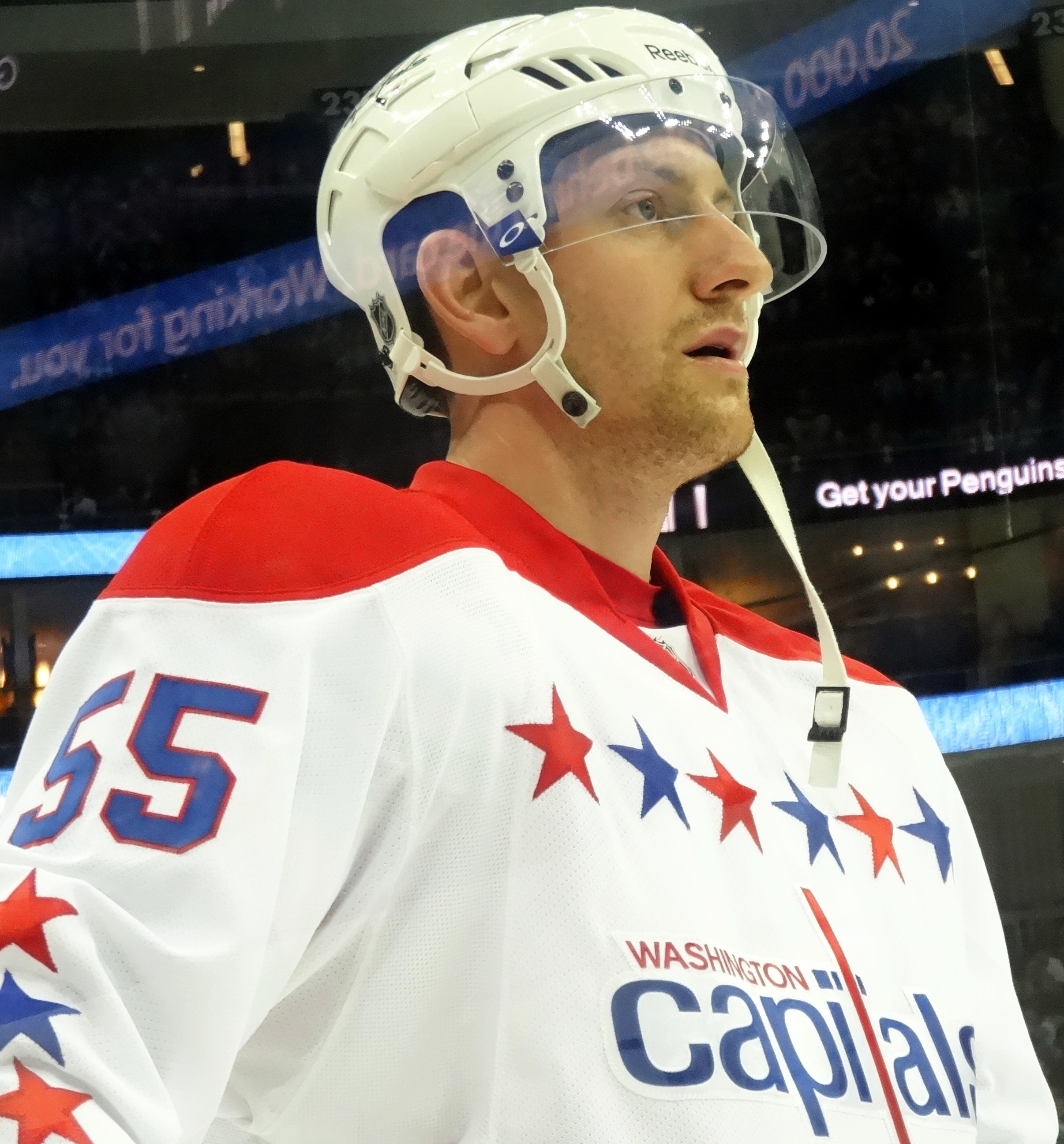 Washington Capitals defensemen Jeff Schultz warms up before a game against the Pittsburgh Penguins, March 19, 2013 at Consol Energy Center in Pittsburgh, PA.